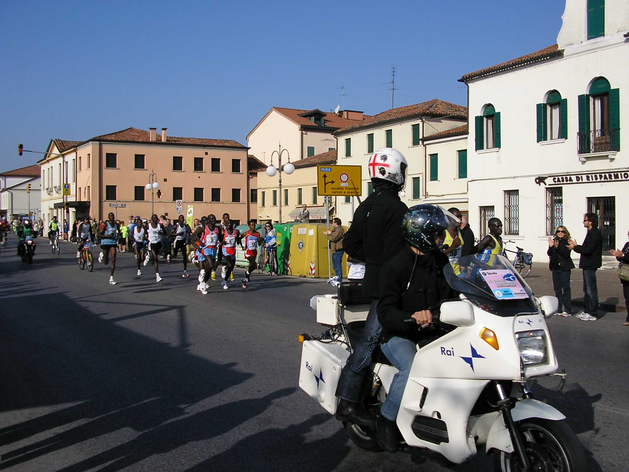 Venice Marathon, presumably 2008